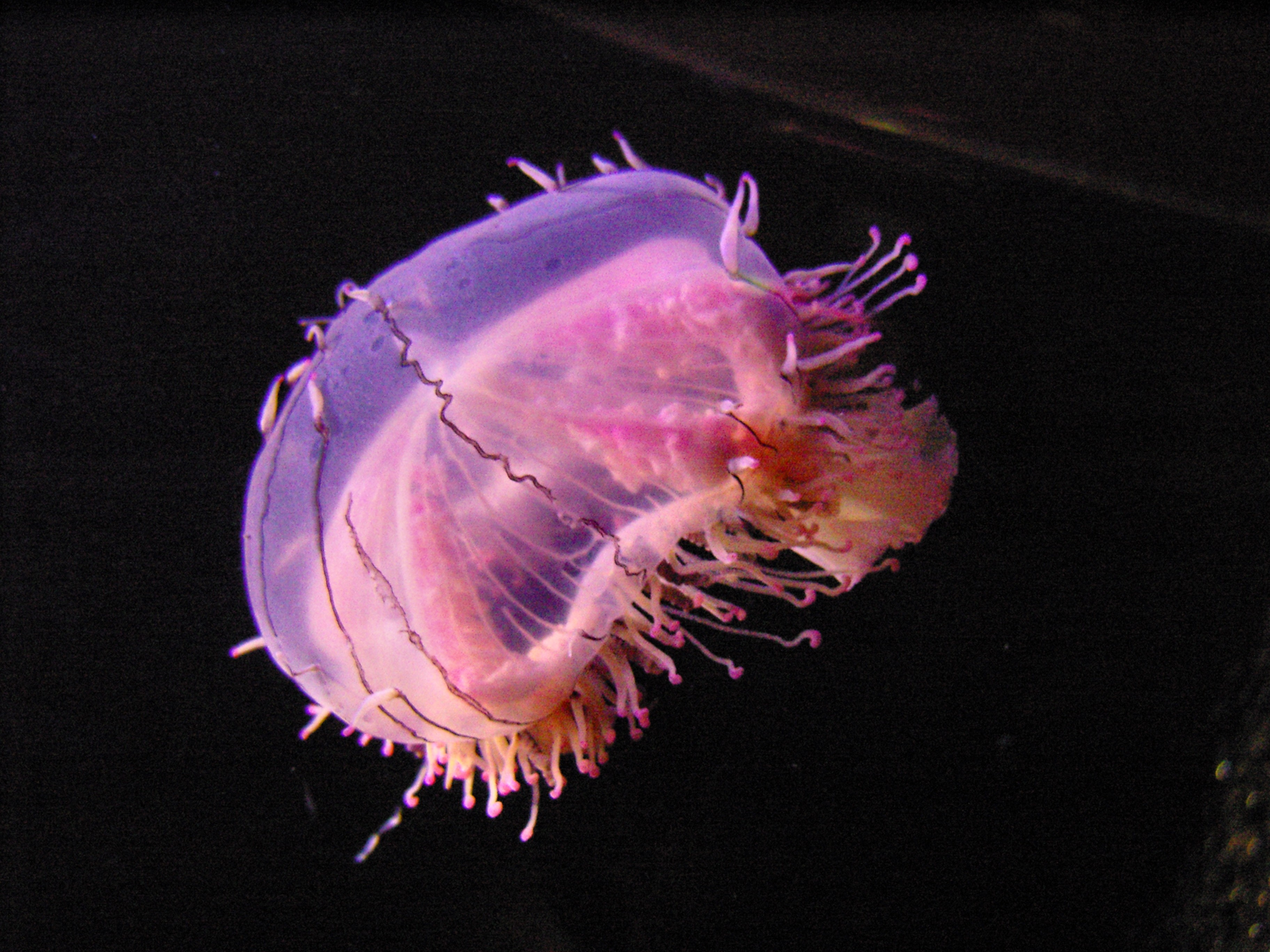 Flower Hat Jellyfish (Olindias formosa), Monterey Bay Aquarium, California.